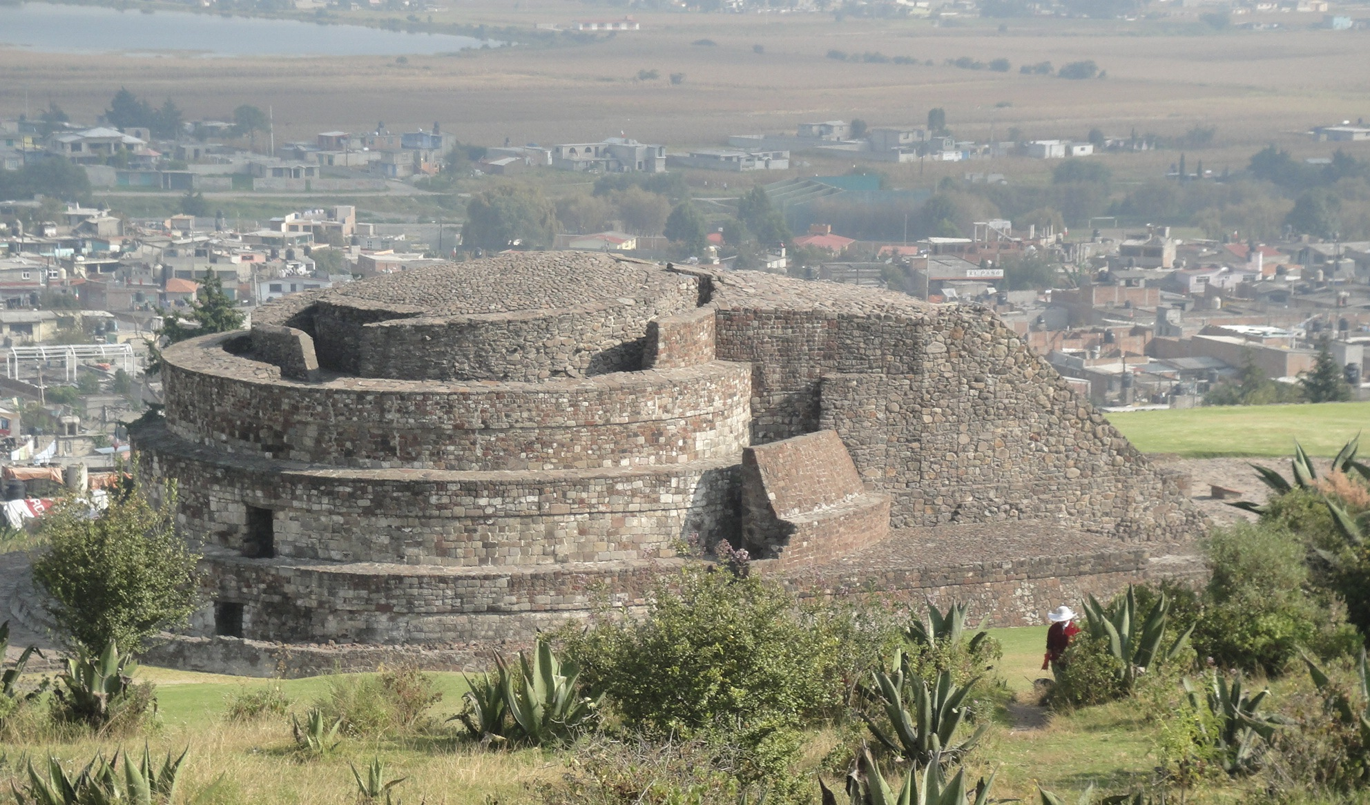 Ehécatl Temple, south view)